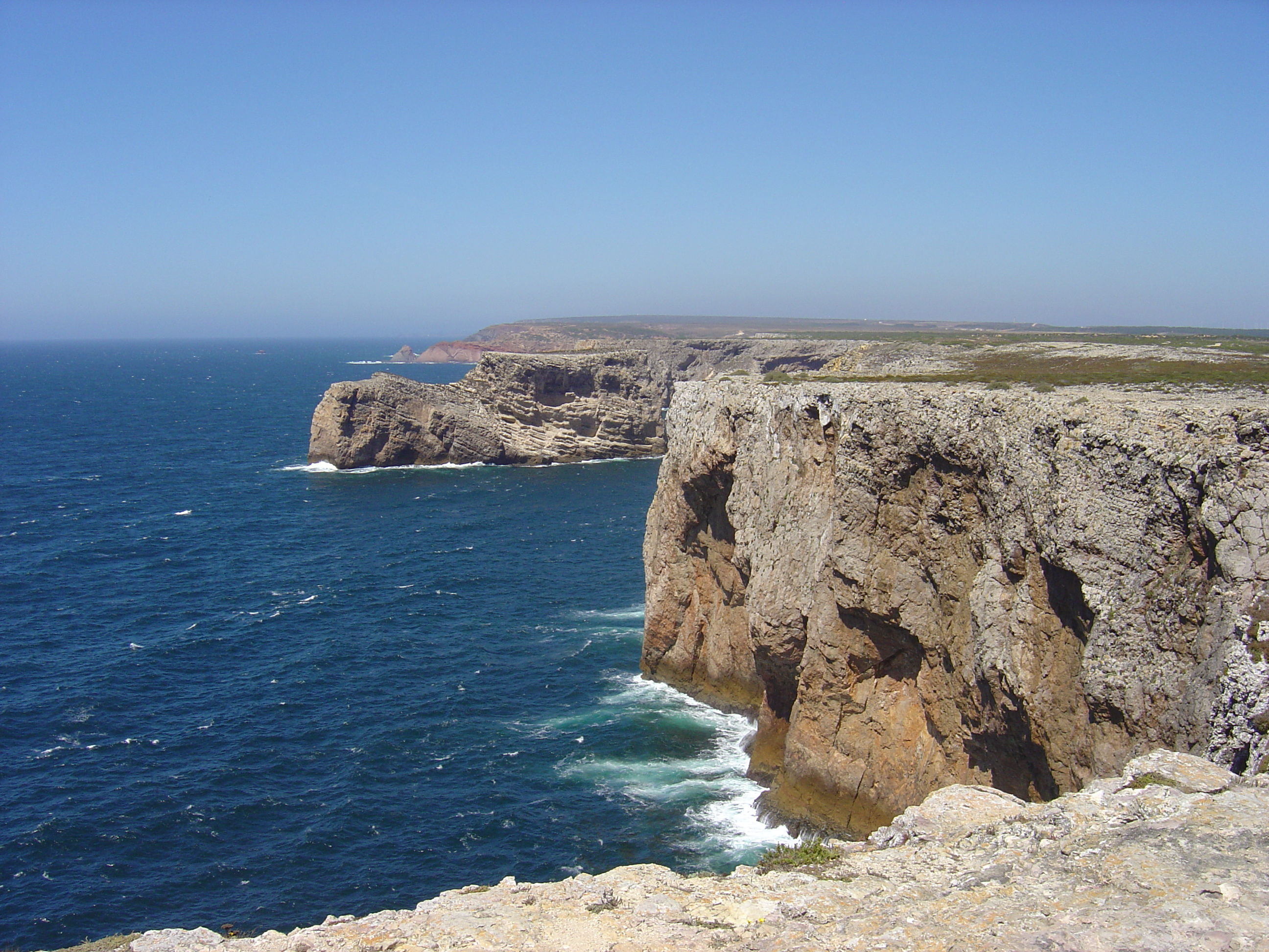 picture taken by User:Husond